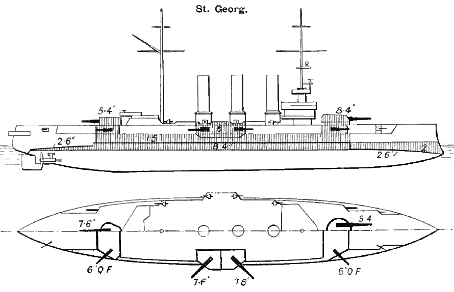 Elevation and deck plan diagrams depicting Austro-Hungarian SMS Sankt Georg amoured cruiser. Numbers on top diagram show armour thickness (shaded areas) in inches. Numbers on bottom diagram show size of guns in inches.